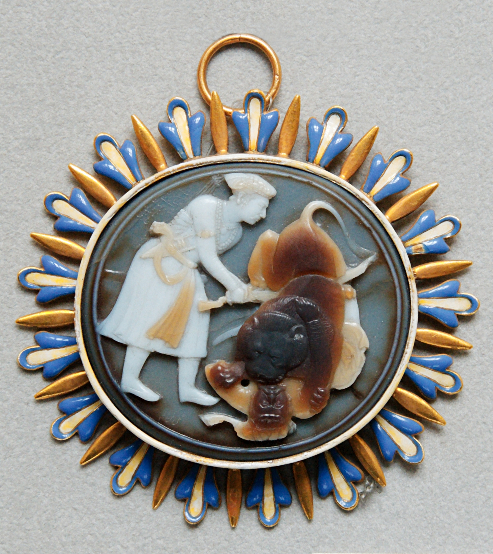 Cameo with Shah Jahan hunting a lion; Persian inscriptions with the name of the artist and that of the protagonist. Probably made by a European working at the court.